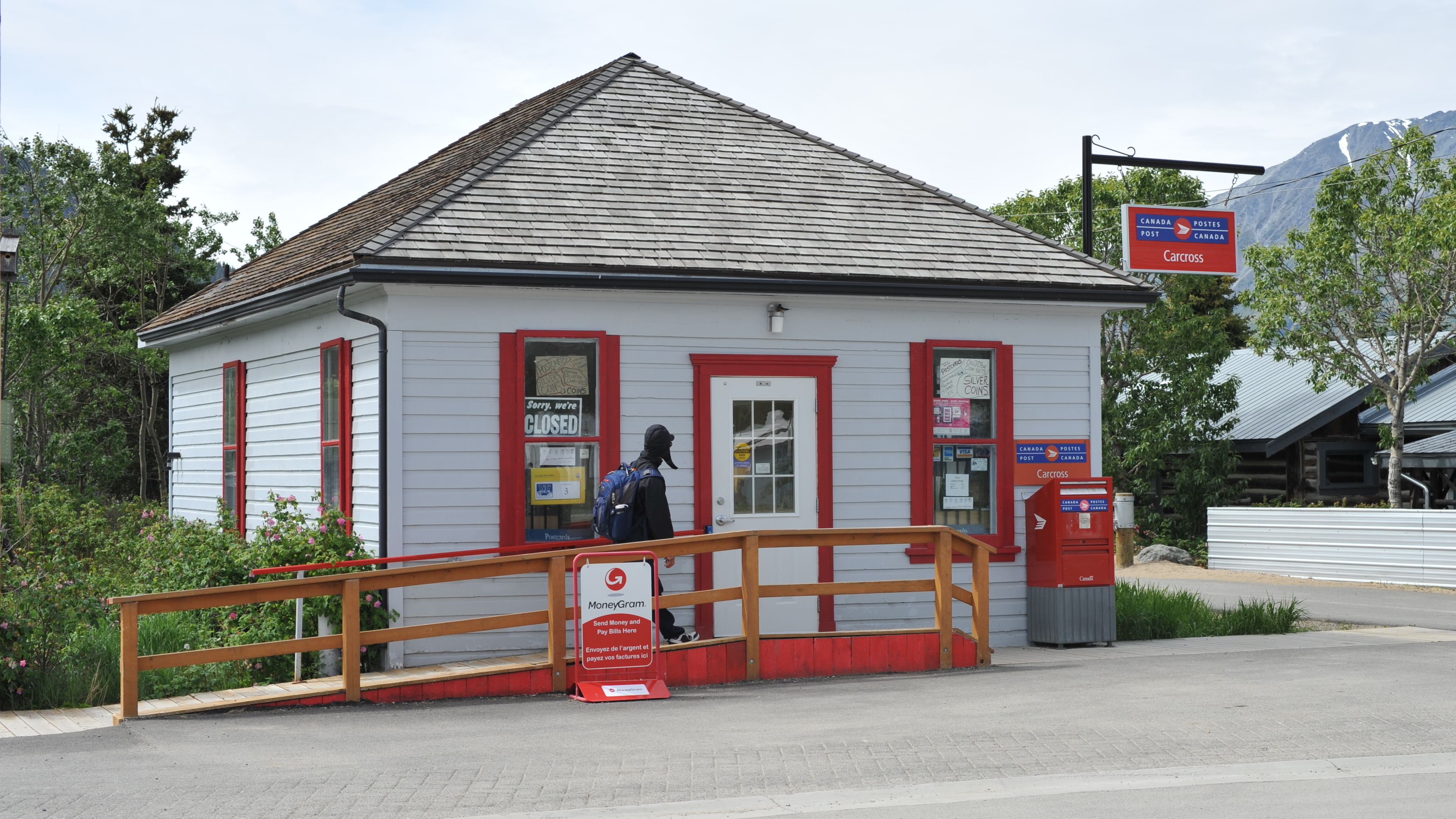 A small but servicable building serves as the post office for this small northern community. QUS_2559_cr